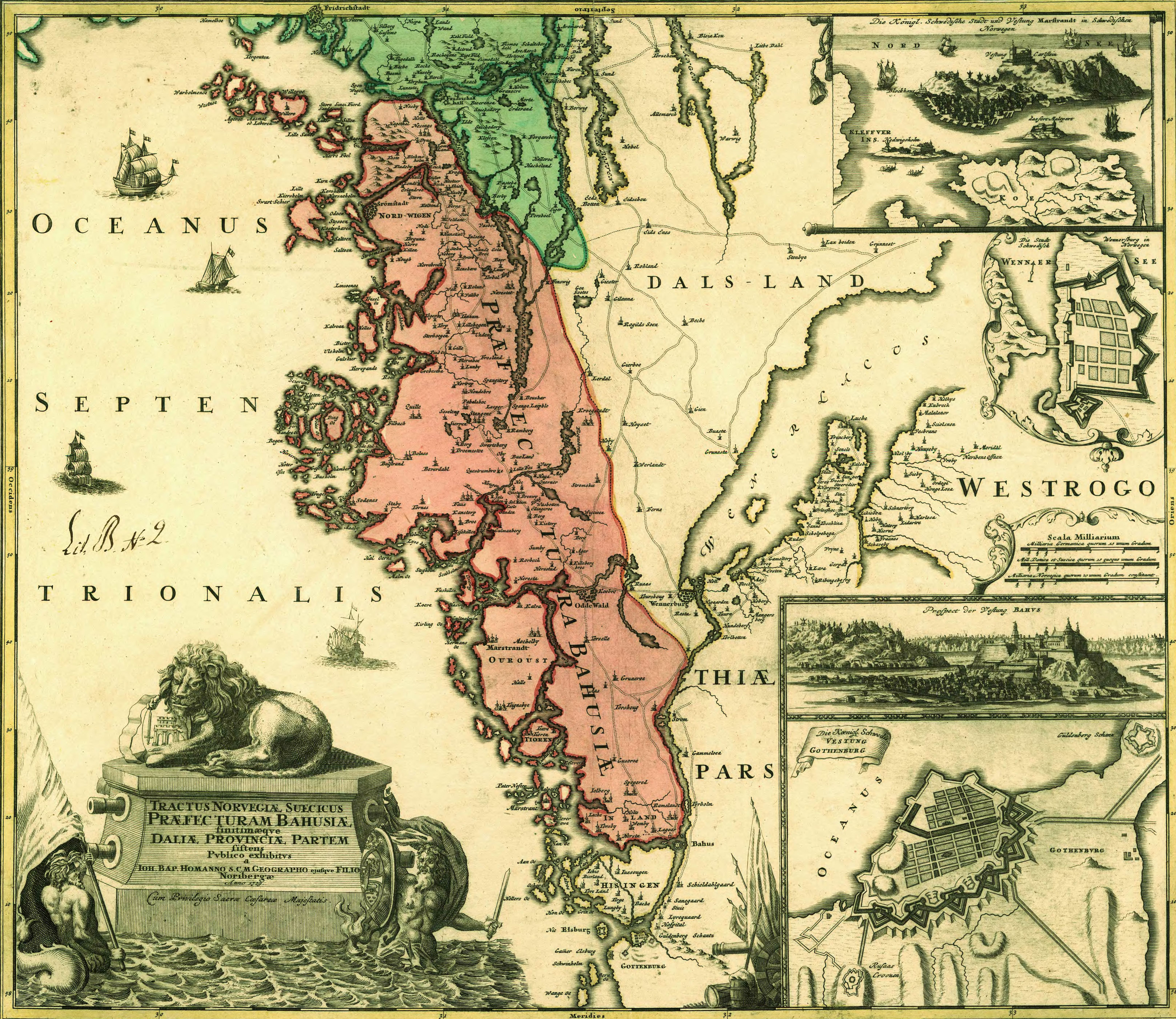 Map covering Bohuslän and western part of Sweden, made by Johann Baptist Homann and published after his death 1729